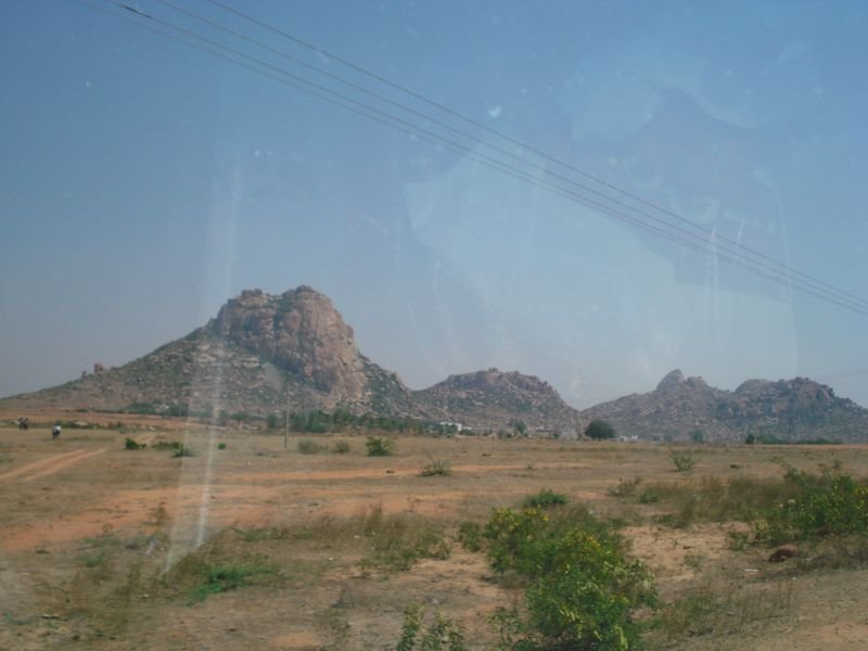 Kalyanadurg Hills